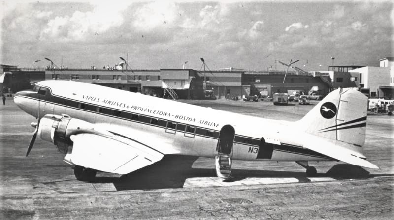 1940-built DC-3 of Provincetown-Boston Airline at Miami International